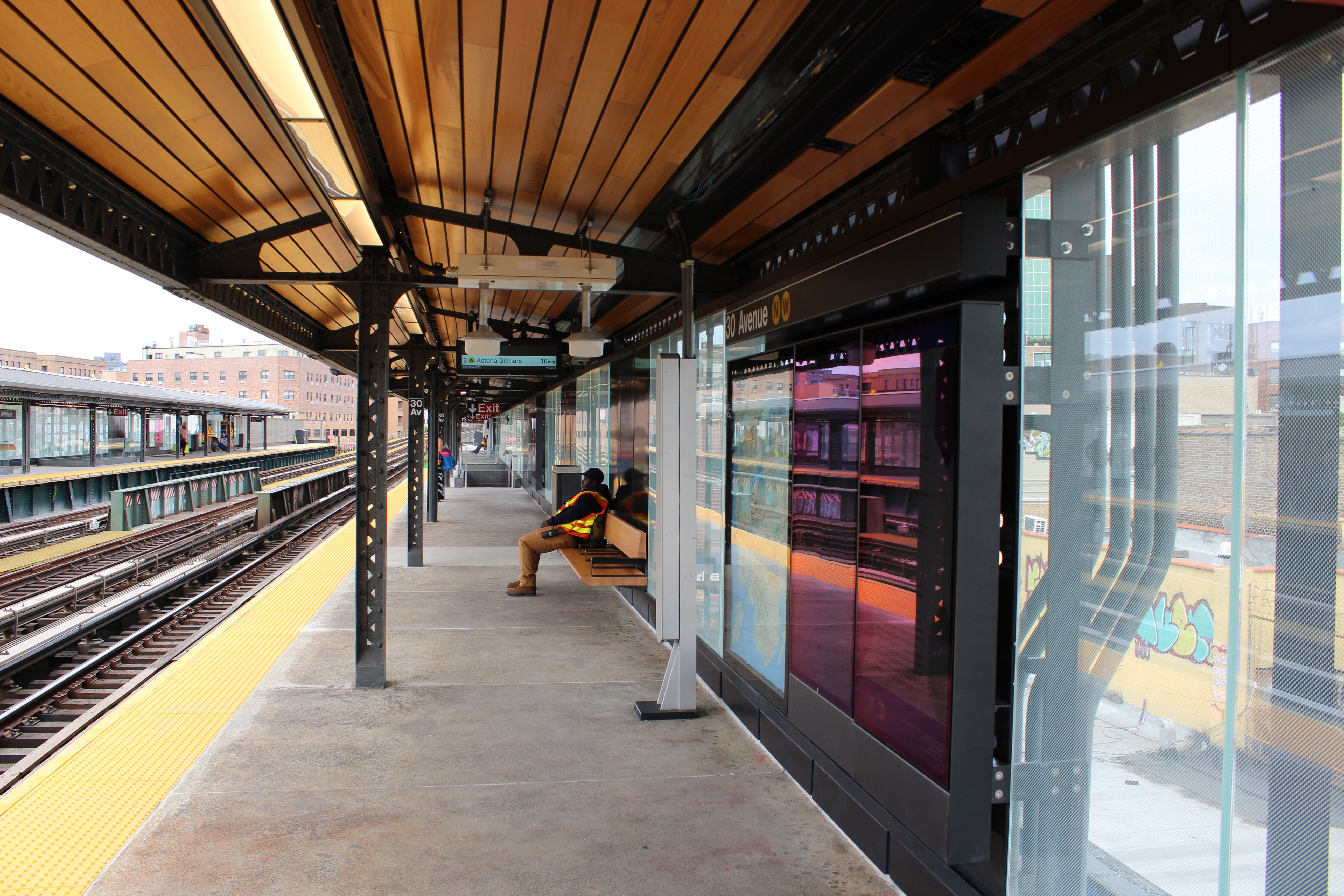 The rebuilt 30th Avenue station platforms on reopening day, 22 June 2018 in Astoria, Queens, New York.